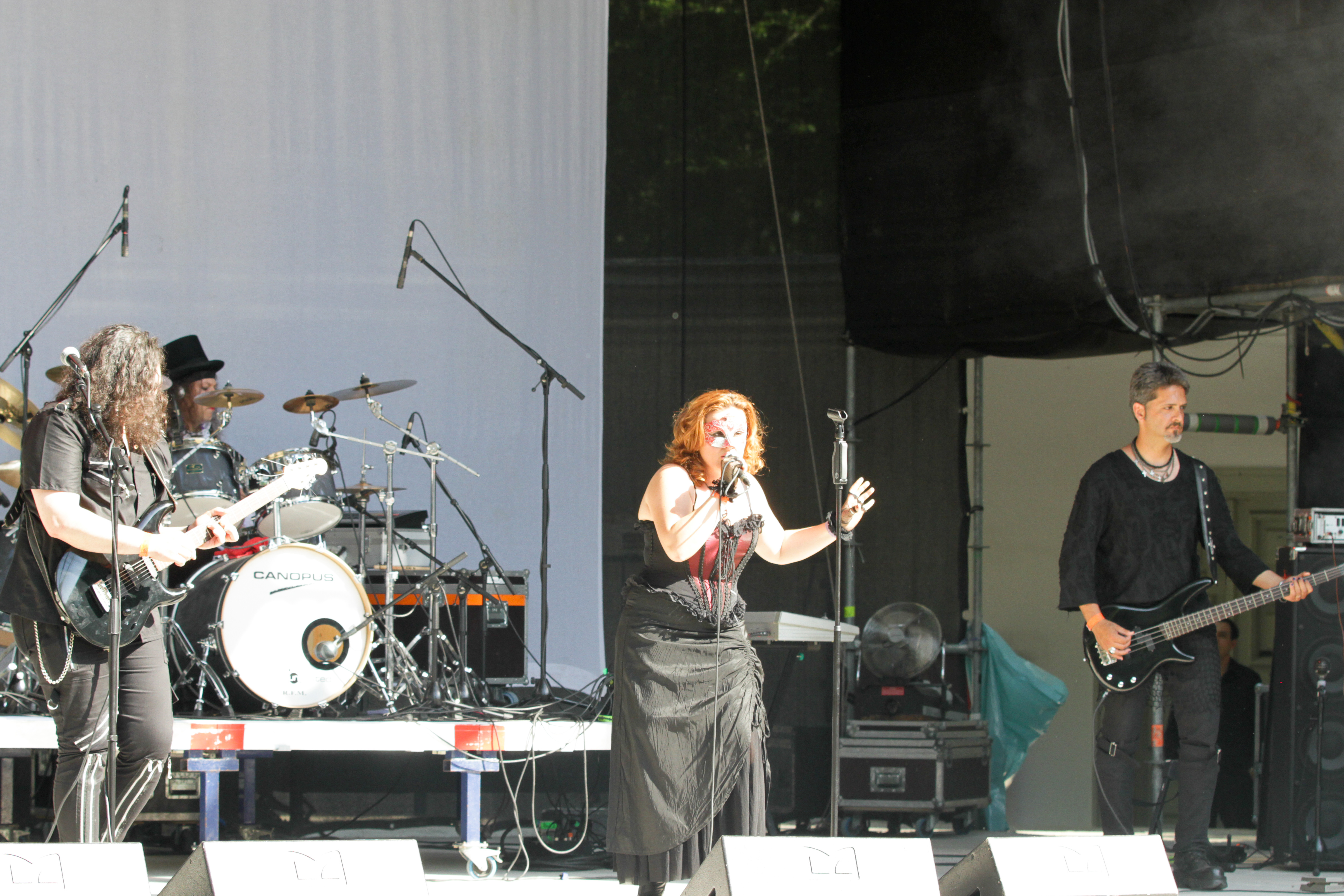 Violet Tears at the Wave-Gotik-Treffen 2014.